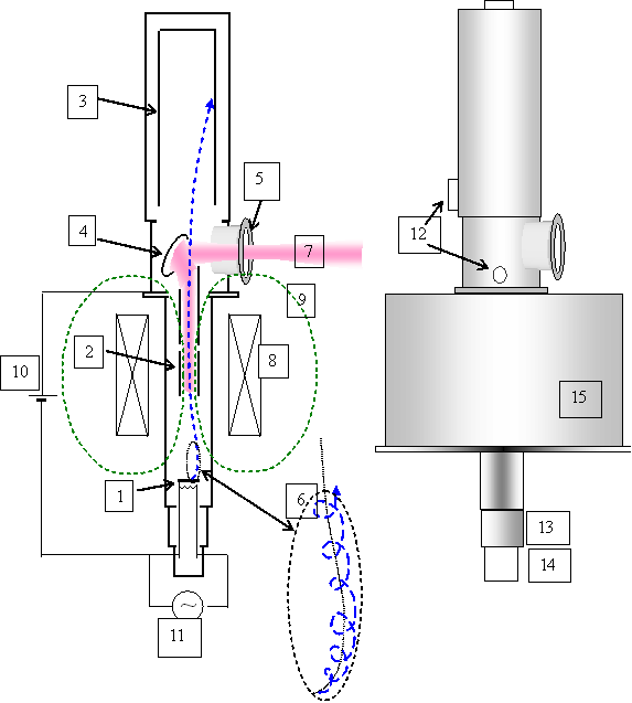 1. cathode with filament, 2. resonance cavity, 3. collector, 4. microwave mirror, 5. vacuum window, 6. electron beam, 7. microwave beam, 8. magnet coils, 9. magnetic field, 10. high voltage power supply, 11. filament power supply, 12. cooling water connections, 13. electrical insulator, 14. high-voltage terminals, 15. magnet (possibly, superconducting)